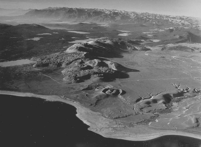 Mono Craters airphoto, at Mono Lake (the dark foreground), Eastern California, USA